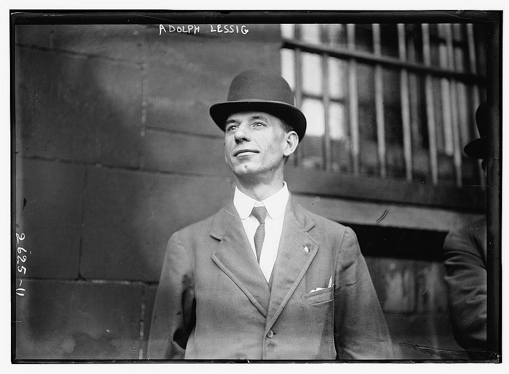 Adolph Lessig circa 1913